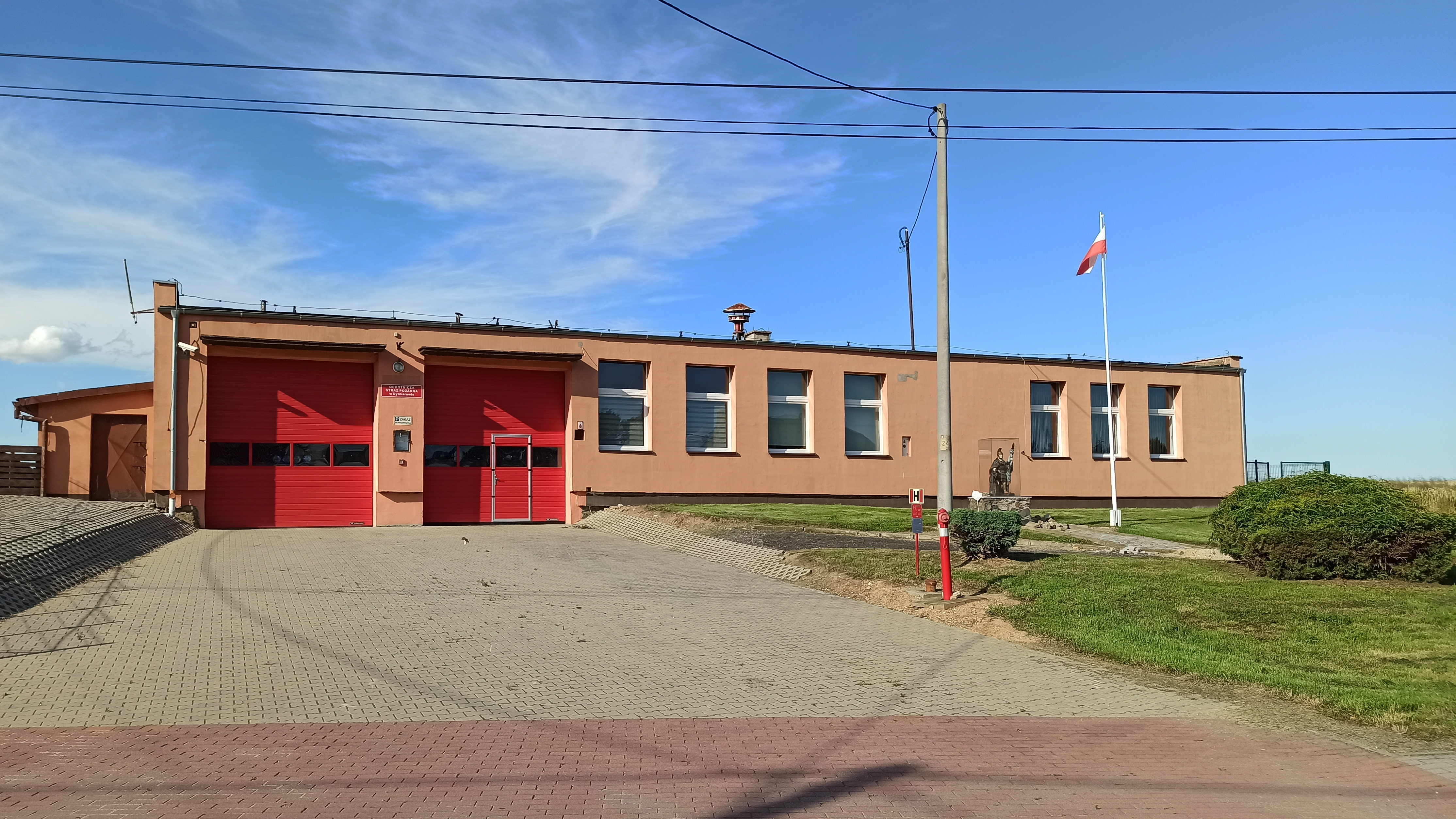 Fire station in Dytmarów, Poland.